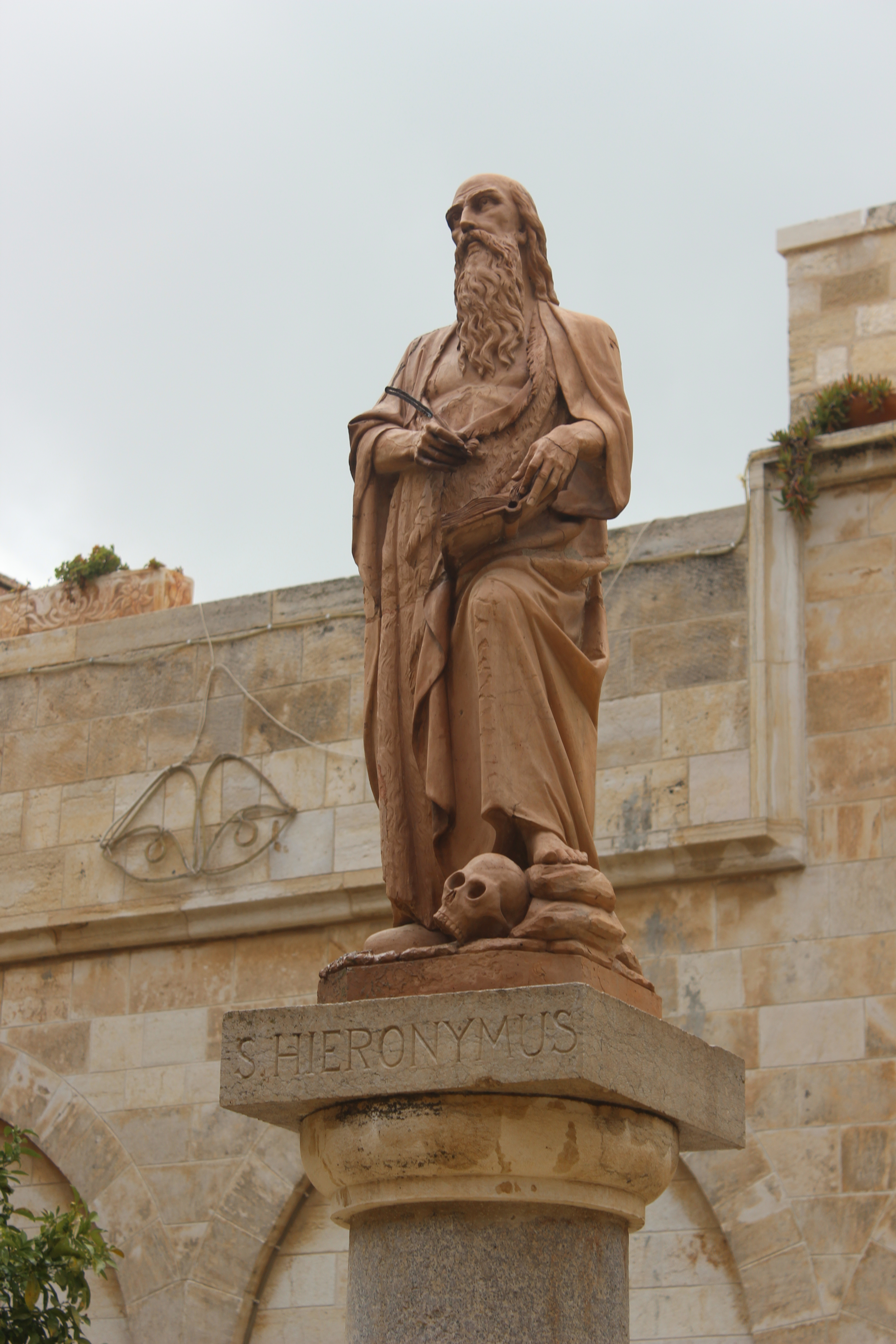 This photo is also uploaded on Flickr: Artin Afsharjavan